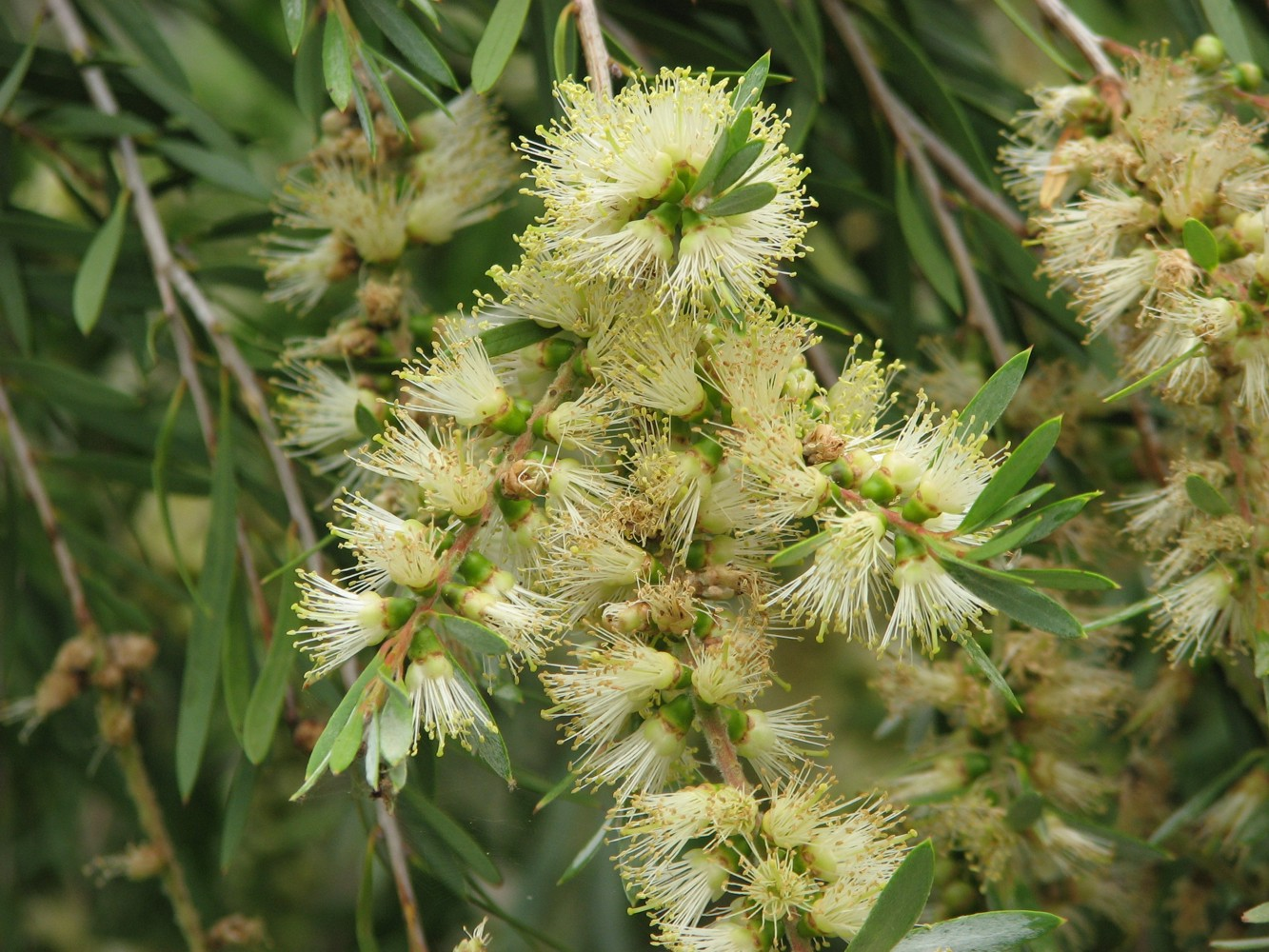 Callistemon sieberi (cultivated, labelled), Royal Botanic Gardens, Melbourne